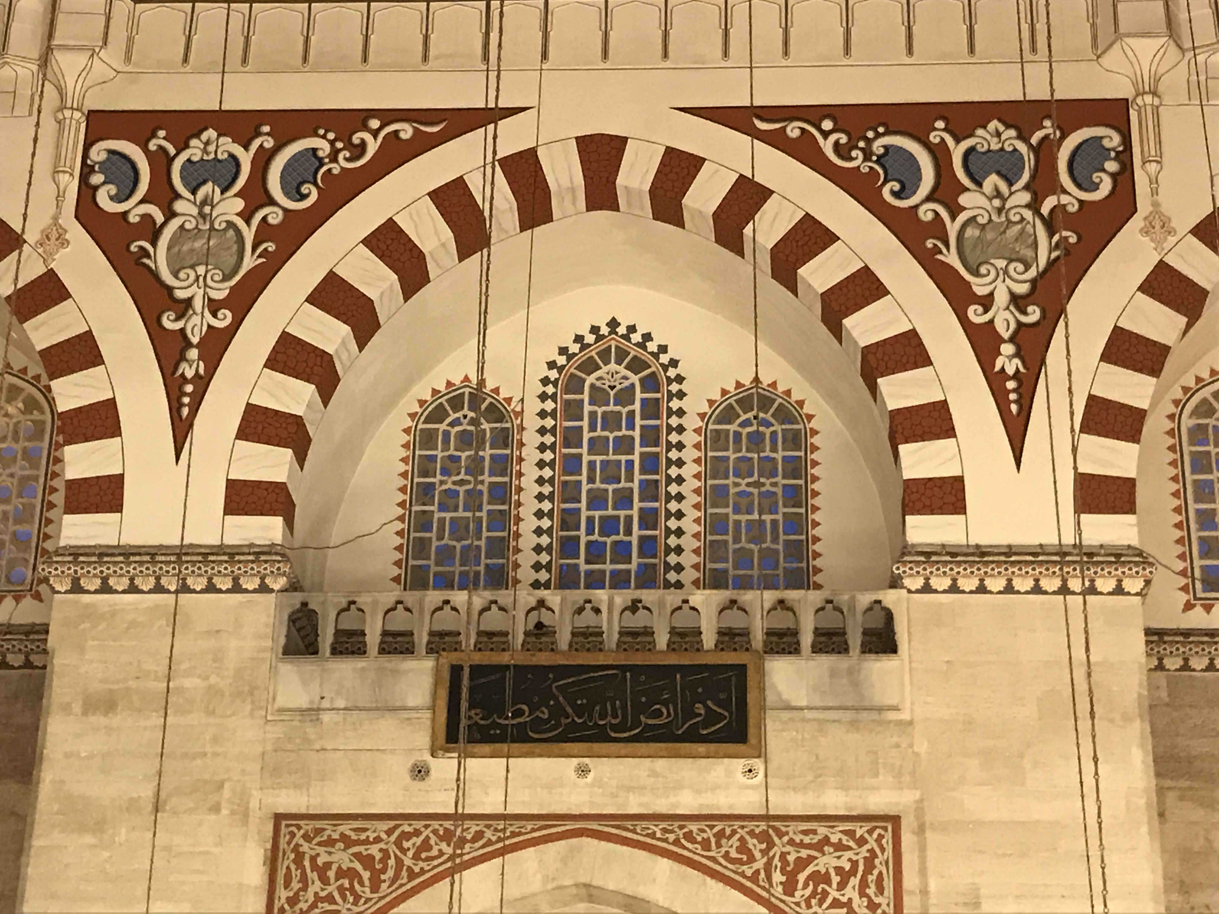 Şehzade Mosque, a 16th-century Ottoman imperial mosque located in the district of Fatih, on the third hill of Istanbul, Turkey. It was commissioned by Suleiman the Magnificent as a memorial to his favorite son Şehzade Mehmed who died in 1543. It is sometimes referred to as the "Prince's Mosque" in English. Suleiman is said to have personally mourned the death of Mehmed for forty days at his temporary tomb in Istanbul, the site upon which the imperial architect Mimar Sinan would construct a lavish mausoleum to Mehmed as one part of a larger mosque complex dedicated to the princely heir. The complex was Sinan's first important imperial commission and ultimately one of his most ambitious architectural works, even though it was designed early in his long career.